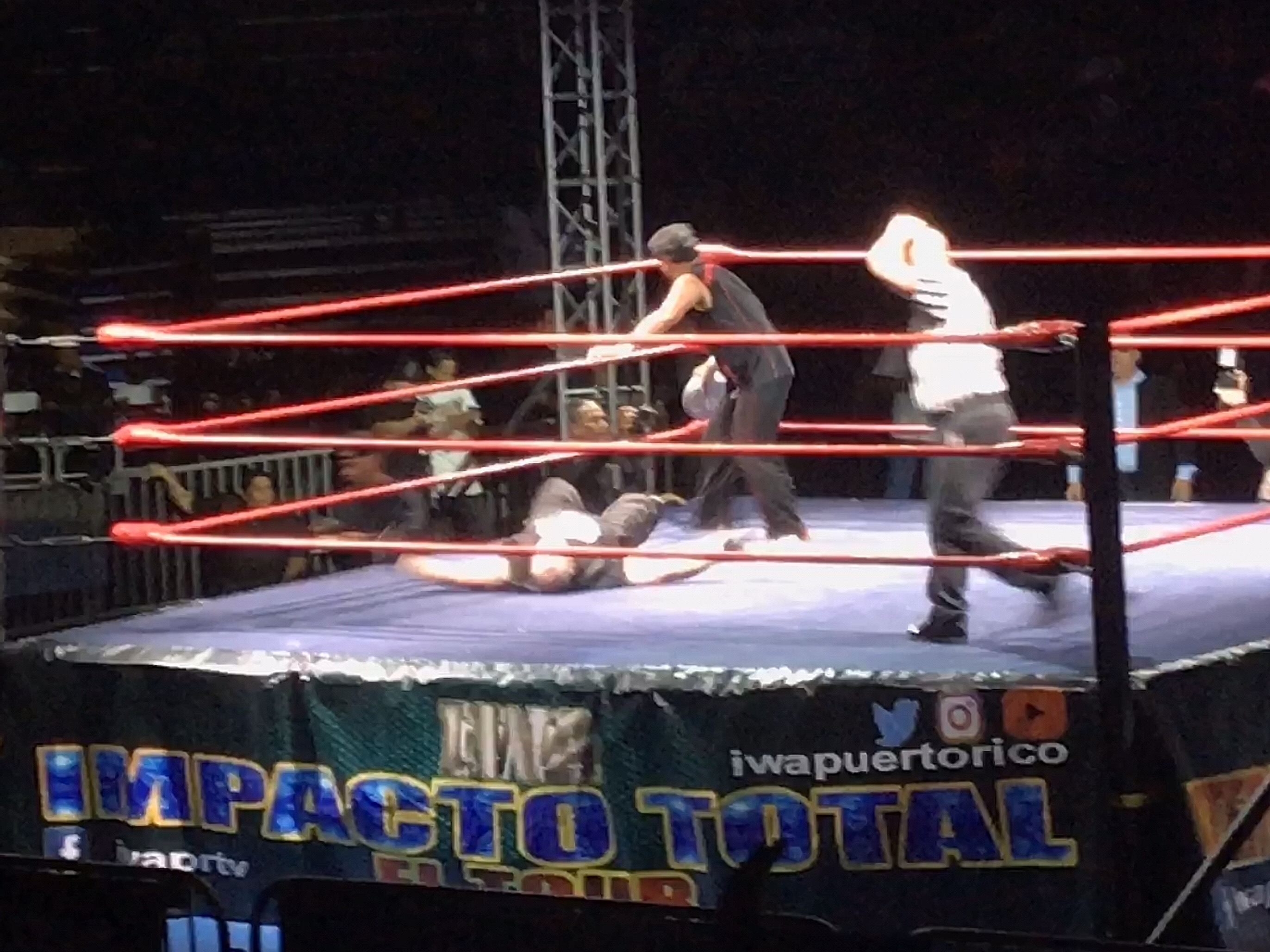 Profesional wrestler Jesús Castillo Jr. at the International Wrestling Association.